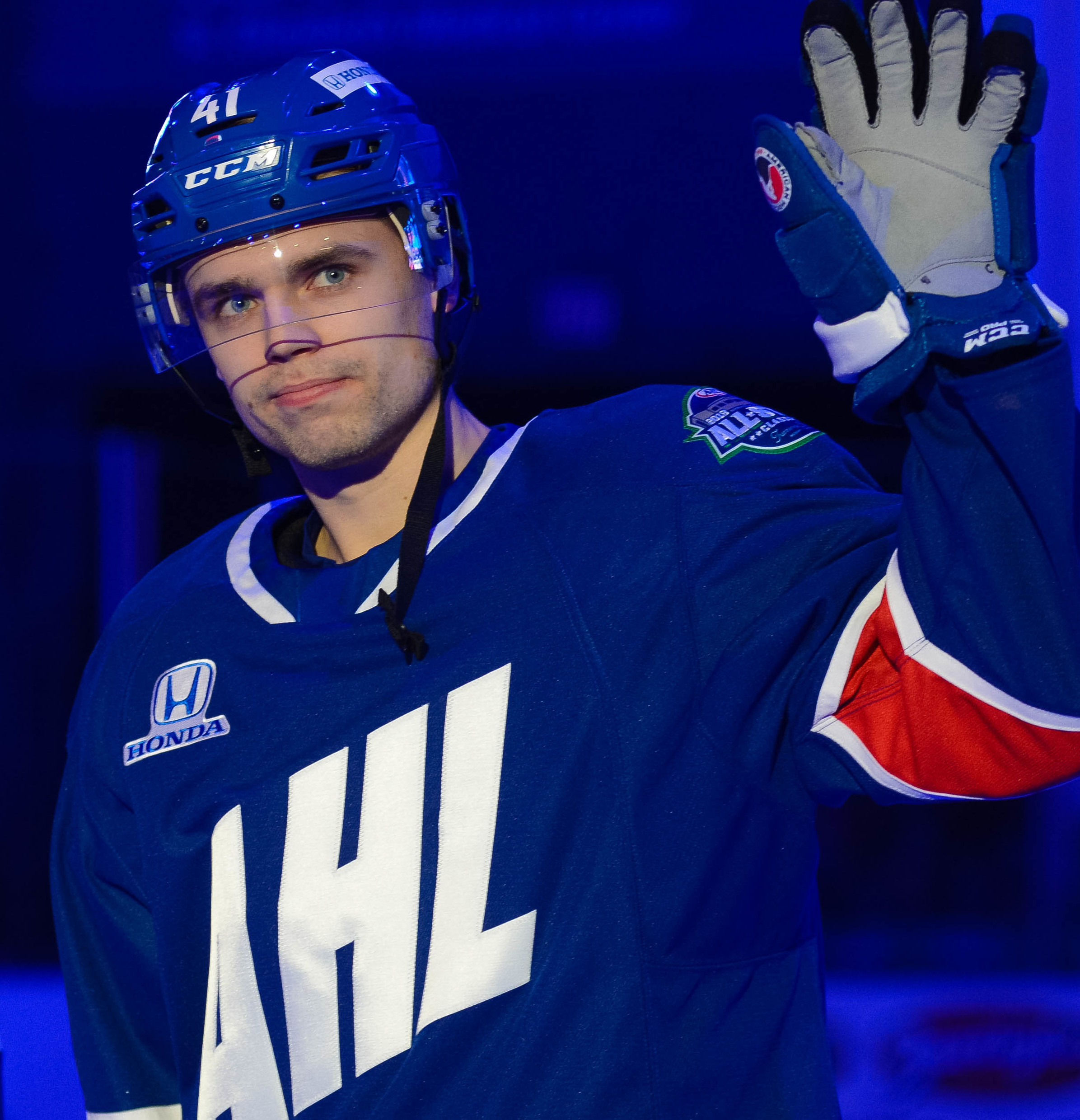 (Lindsay Mogle / AHL)